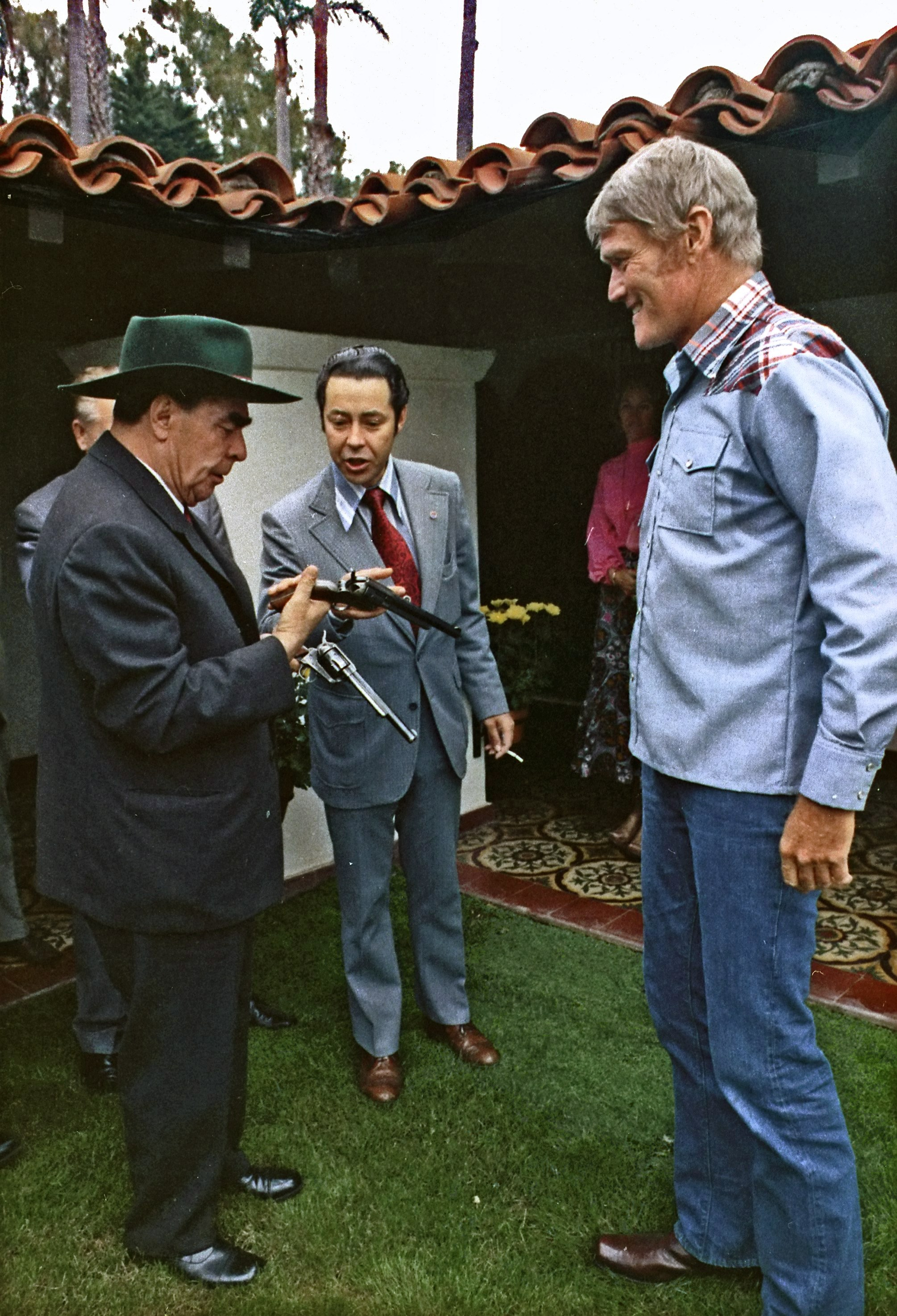 On Wikimedia Commons as "General Secretary Brezhnev meets actor Chuck Connors, at San Clemente - NARA - 194526.tif"